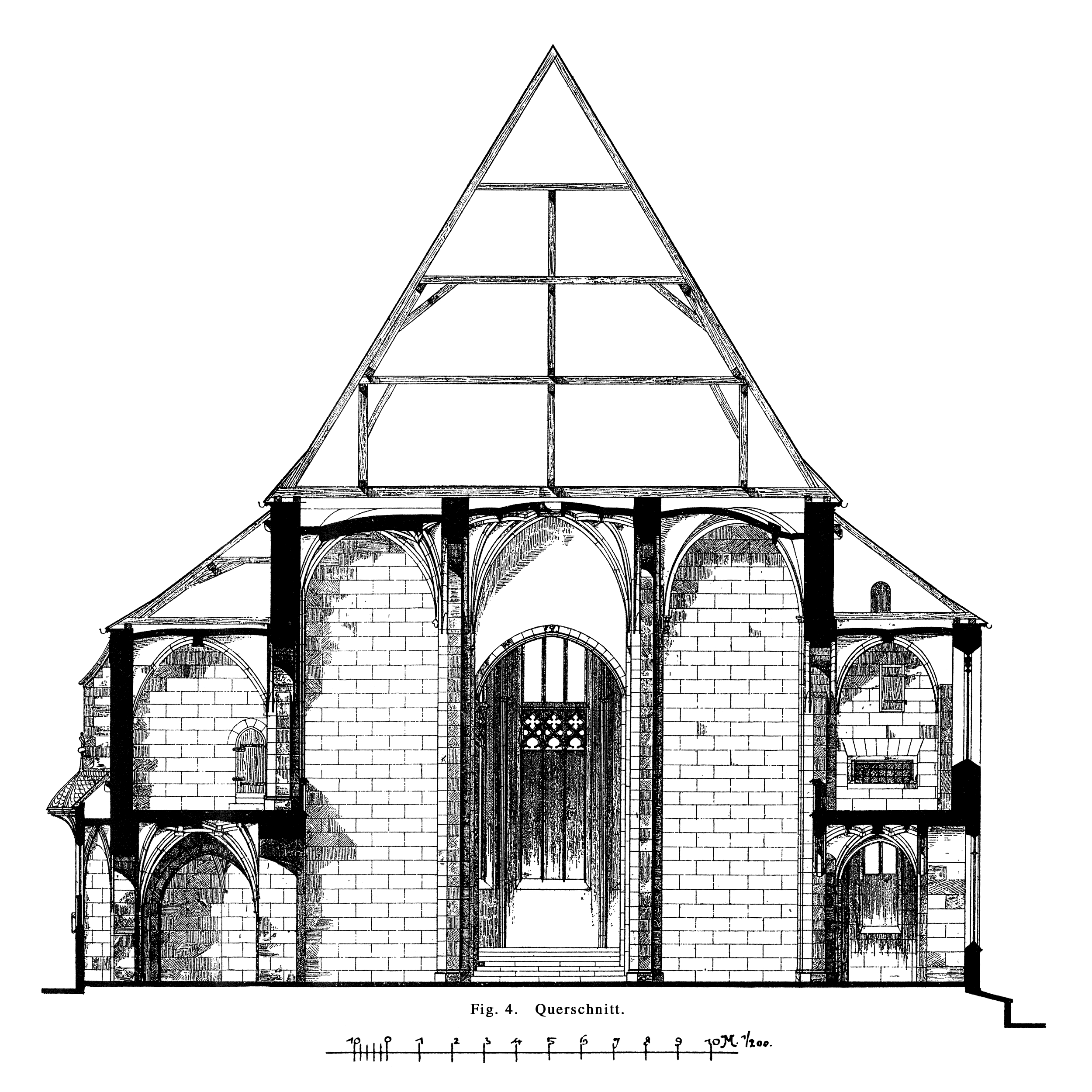 Frankfurt on the Main: Leonhardskirche (Leonard's church), cross section